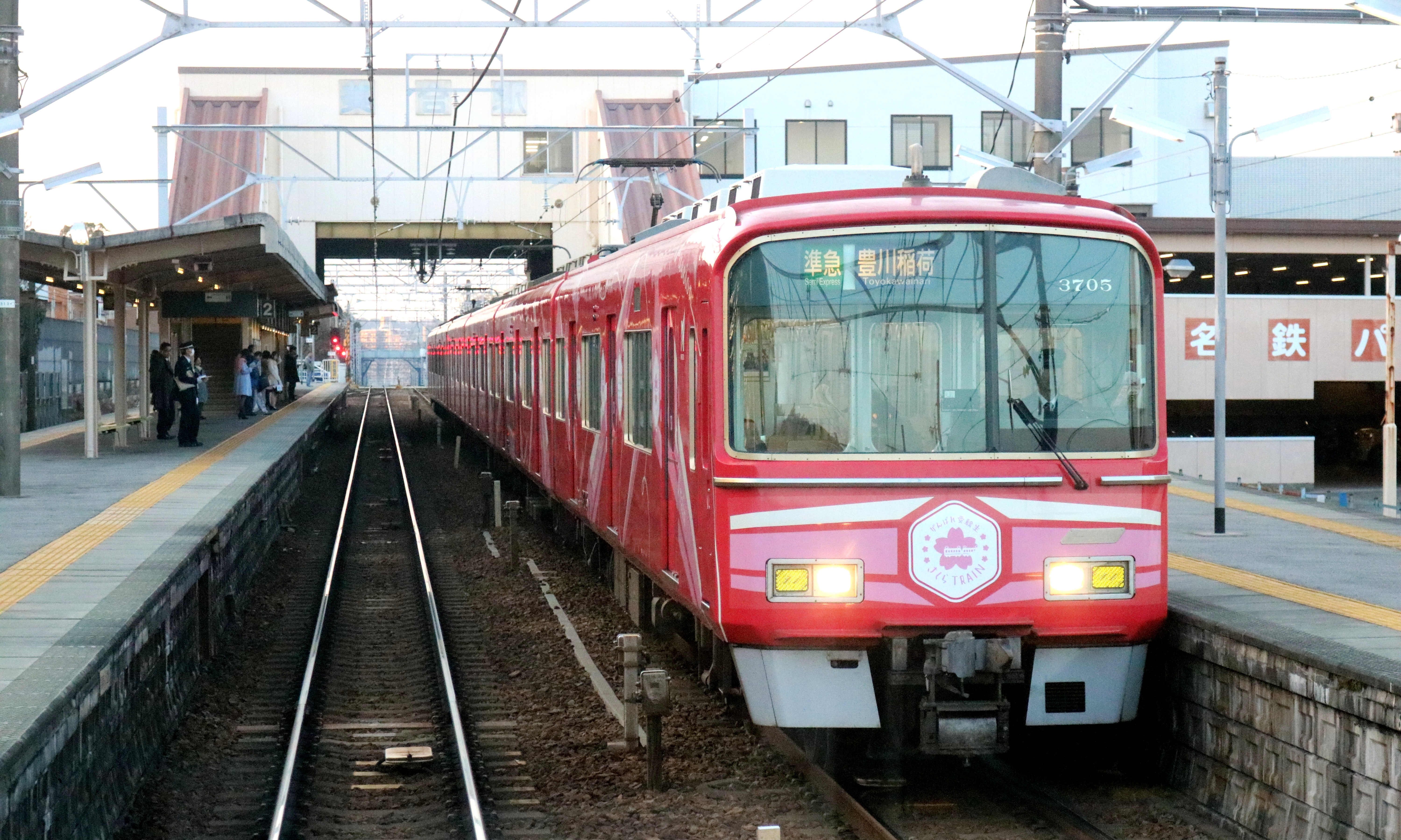 Sakura train Meitetsu 3705 at Miai Staition of Meitetsu Nagoya Main Line in Okazaki, Aichi prefecture, Japan.